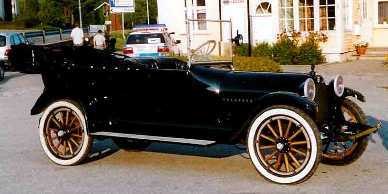 Studebaker Model SF Four-Forty Series 16/17 Touring 1916